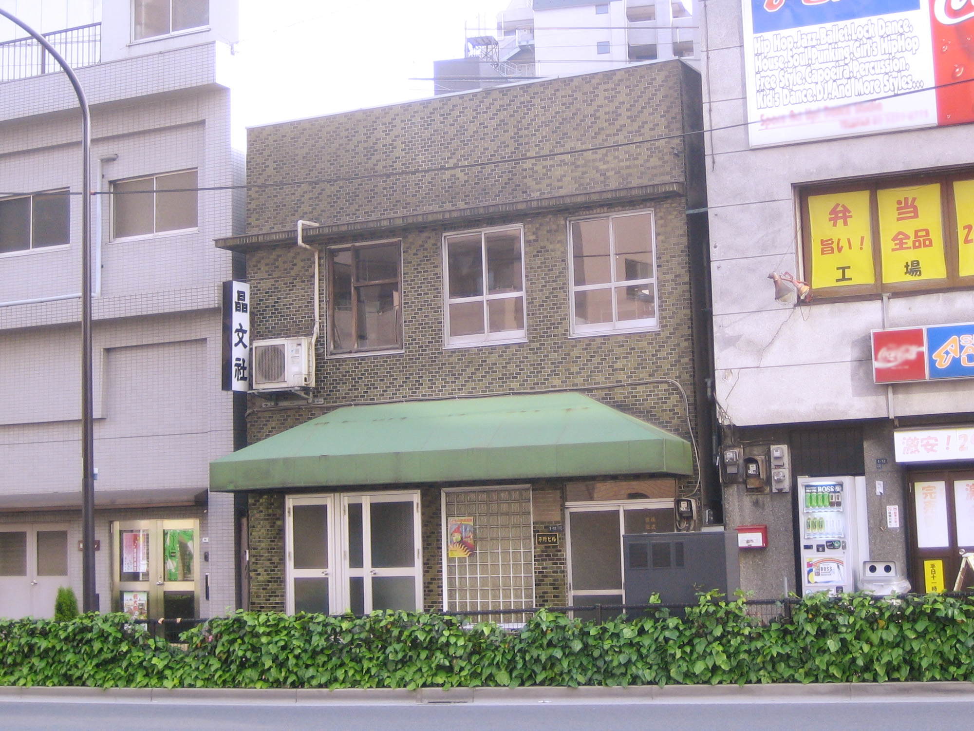 Shobunsha (晶文社), former headquarter in Hirano Building, 2-1-12 Sotokanda, Chiyoda, Tokyo, Japan. (current headquarter location: 1-11 Kanda-Jinbōchō, Chiyoda, Tokyo)